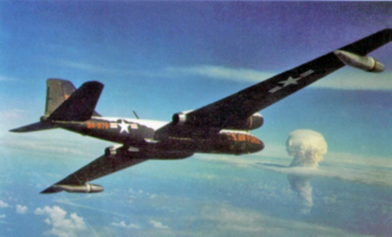 A U.S. Air Force Martin B-57F Canberra (probably B-57E-MA s/n 55-4373) observes the "Juniper" nuclear test of Operation Hardtack I, GMT 04:20, 22 July 1958.